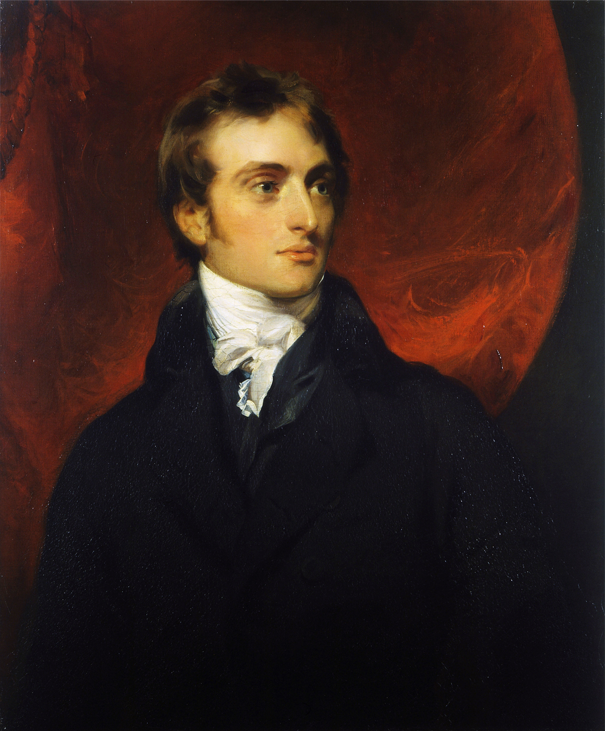 Portrait of Codrington Edmund Carrington (1769–1849), English judge and politician.